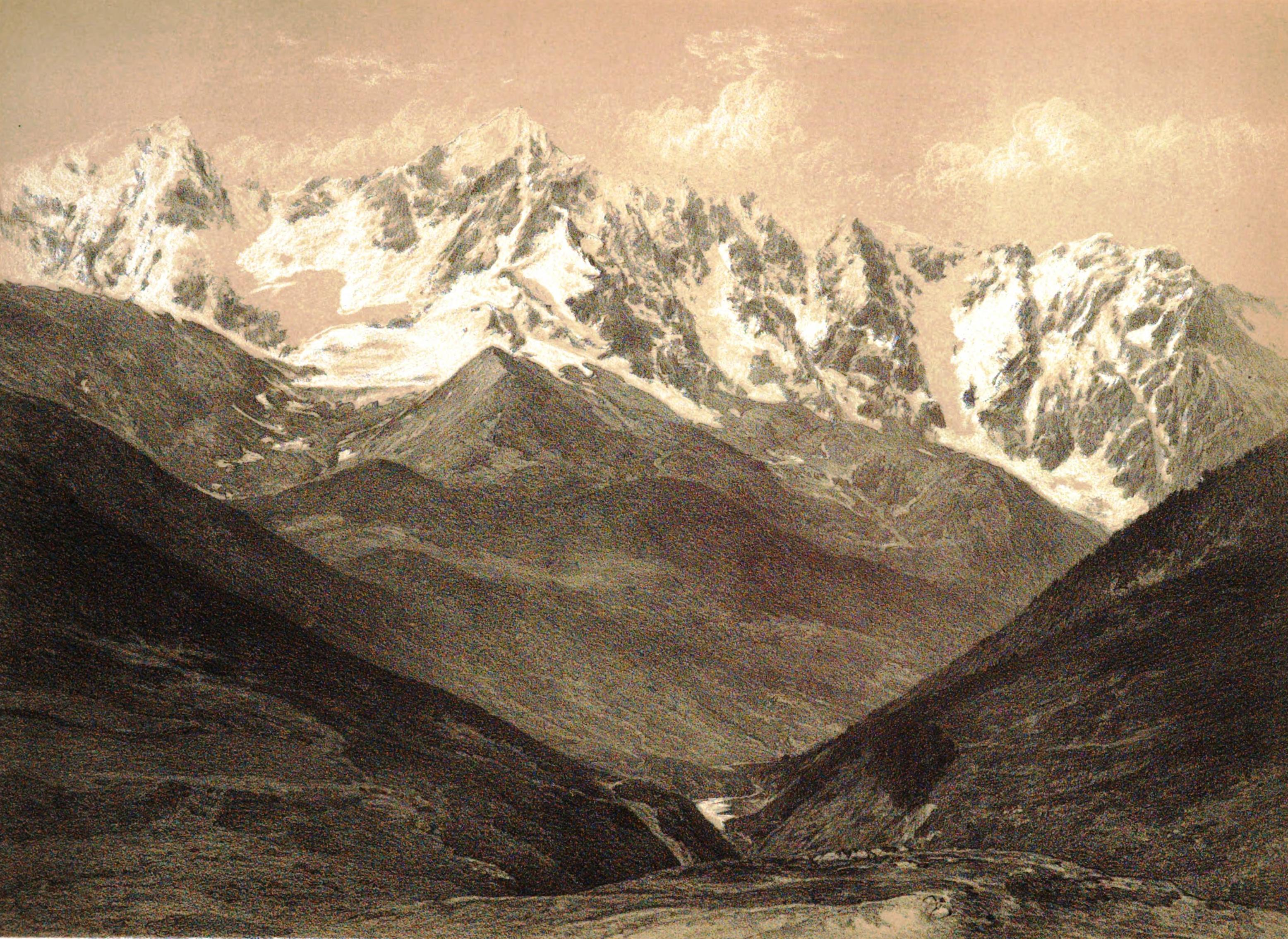 Mt. Shkhara, Georgia